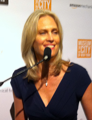 Sharon Middendorf speaking at The Museum of the City of New York event for Tagasauris